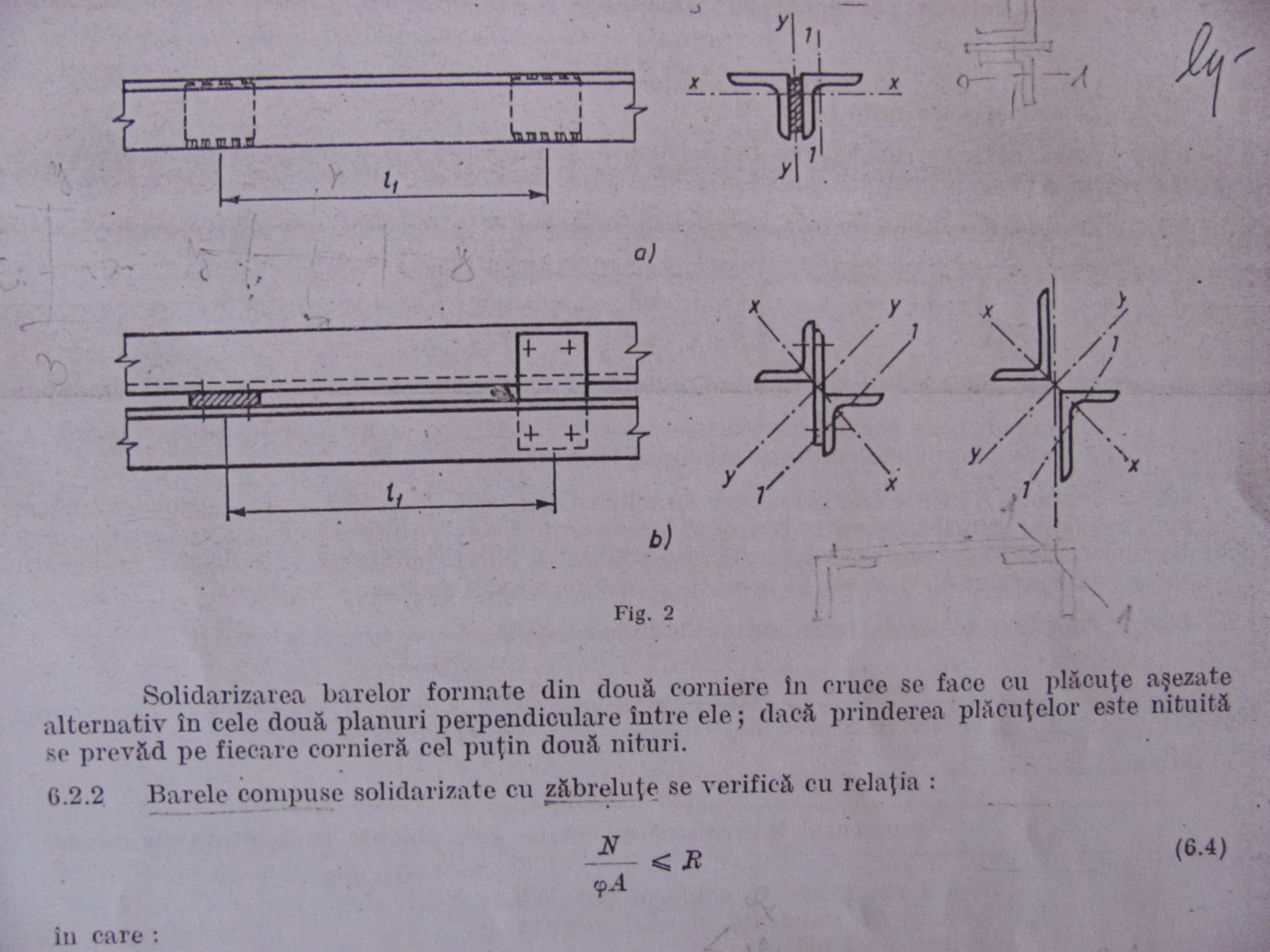 Solidarizarea plăcuțelor la profilele compuse-schemă cf STAS 10108/90